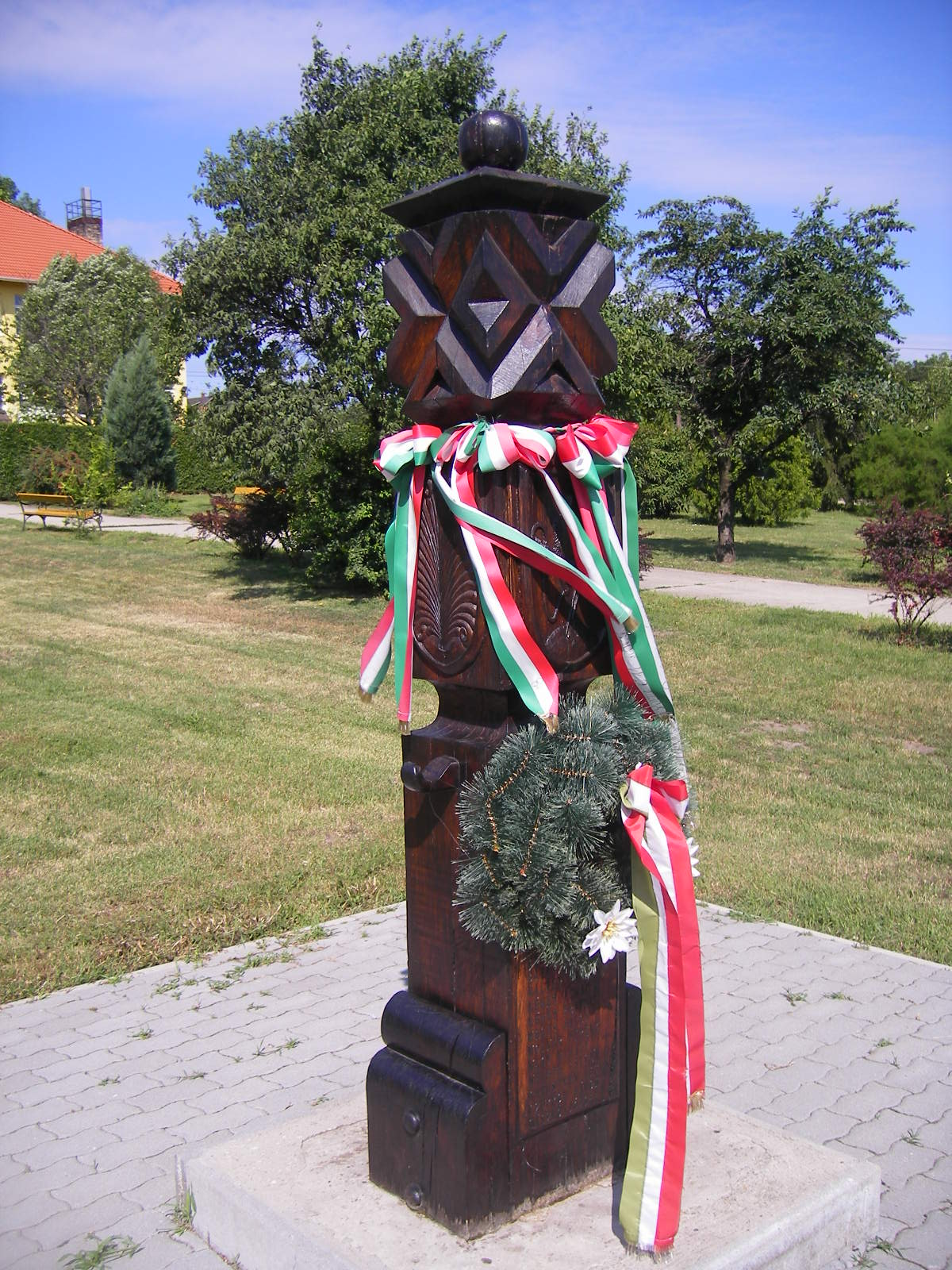 Kocs - kopjafa memorial